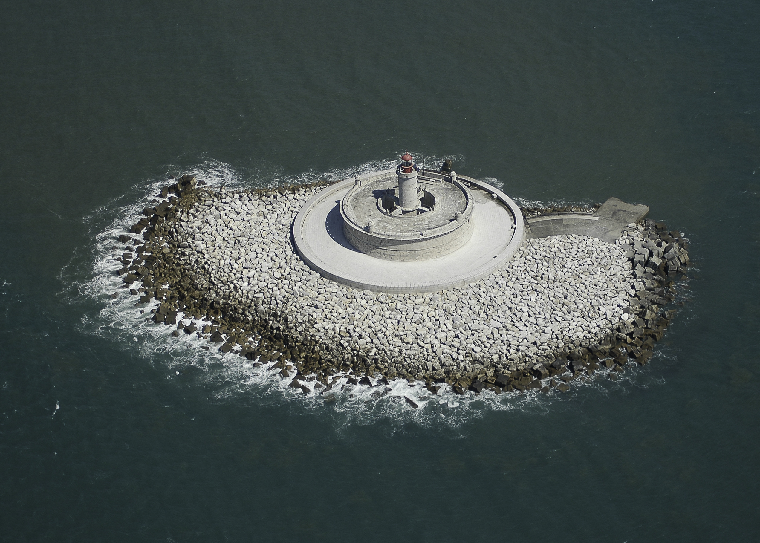 This file was uploaded for Wiki Loves Monuments in Portugal with the unique identifier 72323.